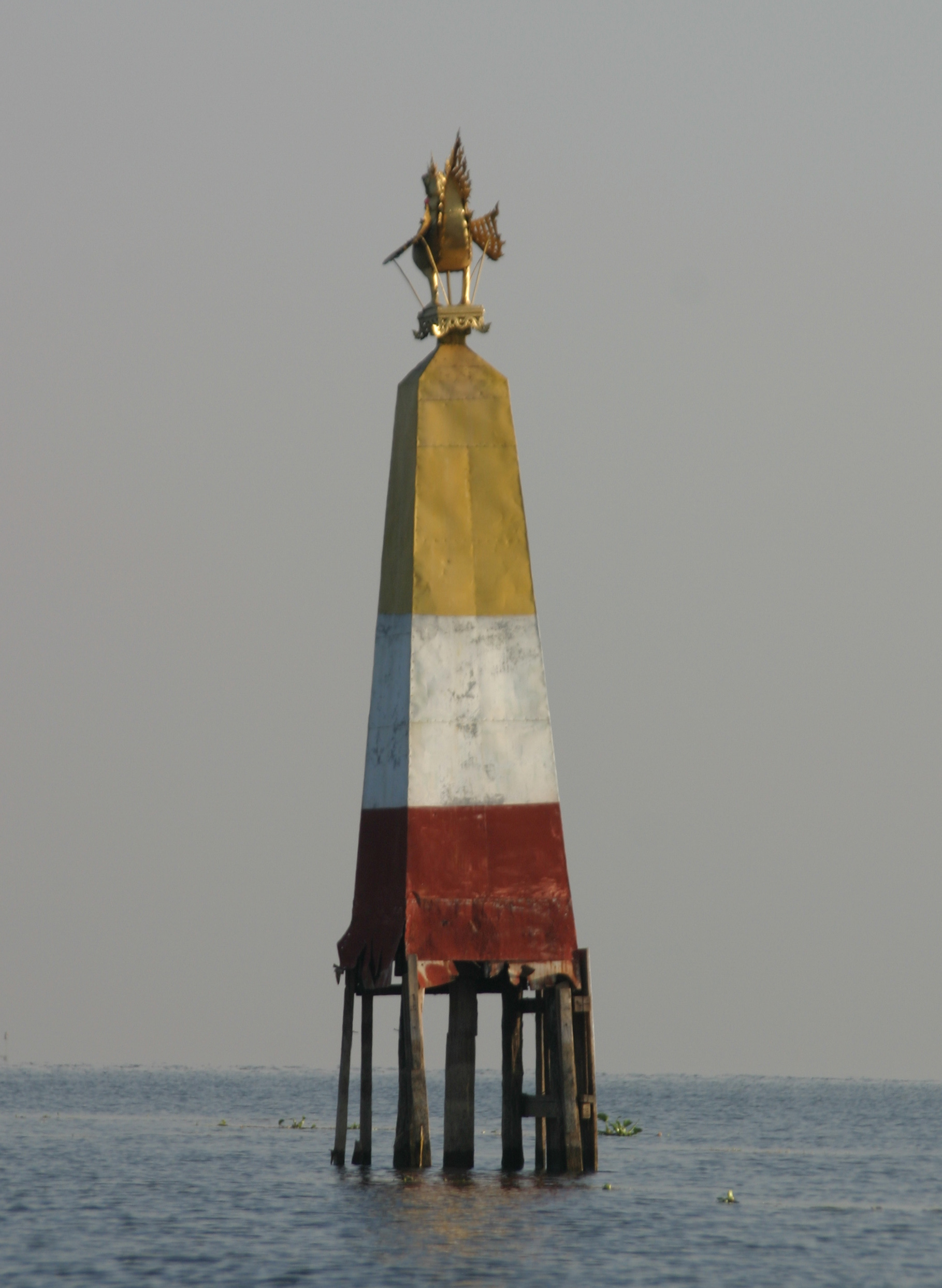 Marking the spot in Inle Lake where the royal bark capsized and the honored Buddha statues fell into the water.